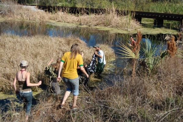 Everglades Earth First